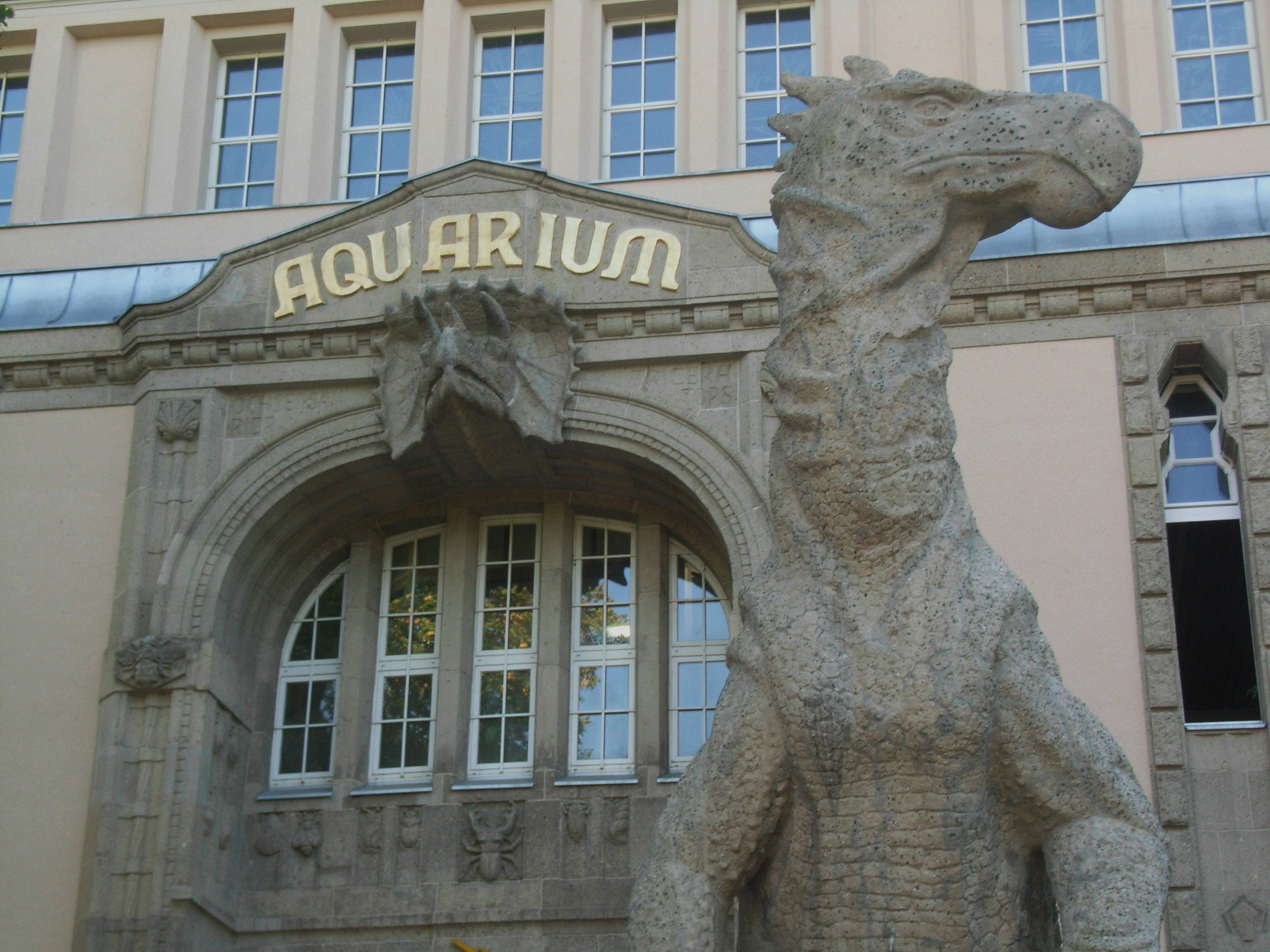 Heinrich Harder (1858 – 1935) reliefs, sculpture and design at the Berlin Aquarium. Heinrich Harder (2 June 1858 Putzar – 5 February 1935 Berlin) was a German artist and an art professor at the Prussian Academy of Arts in Berlin